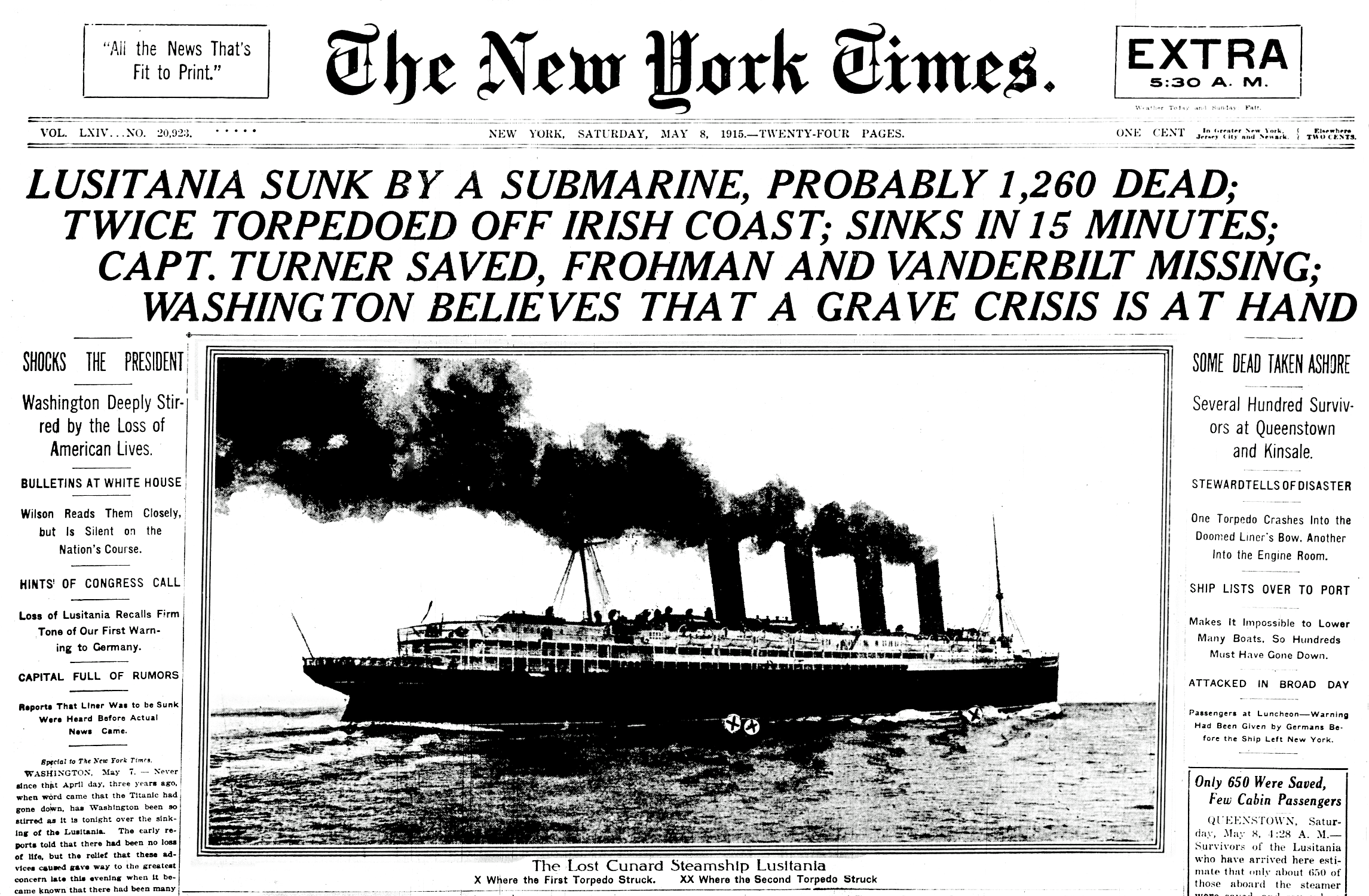 Part of front page of The New York Times with article "Lusitania Sunk By a Submarine ..."